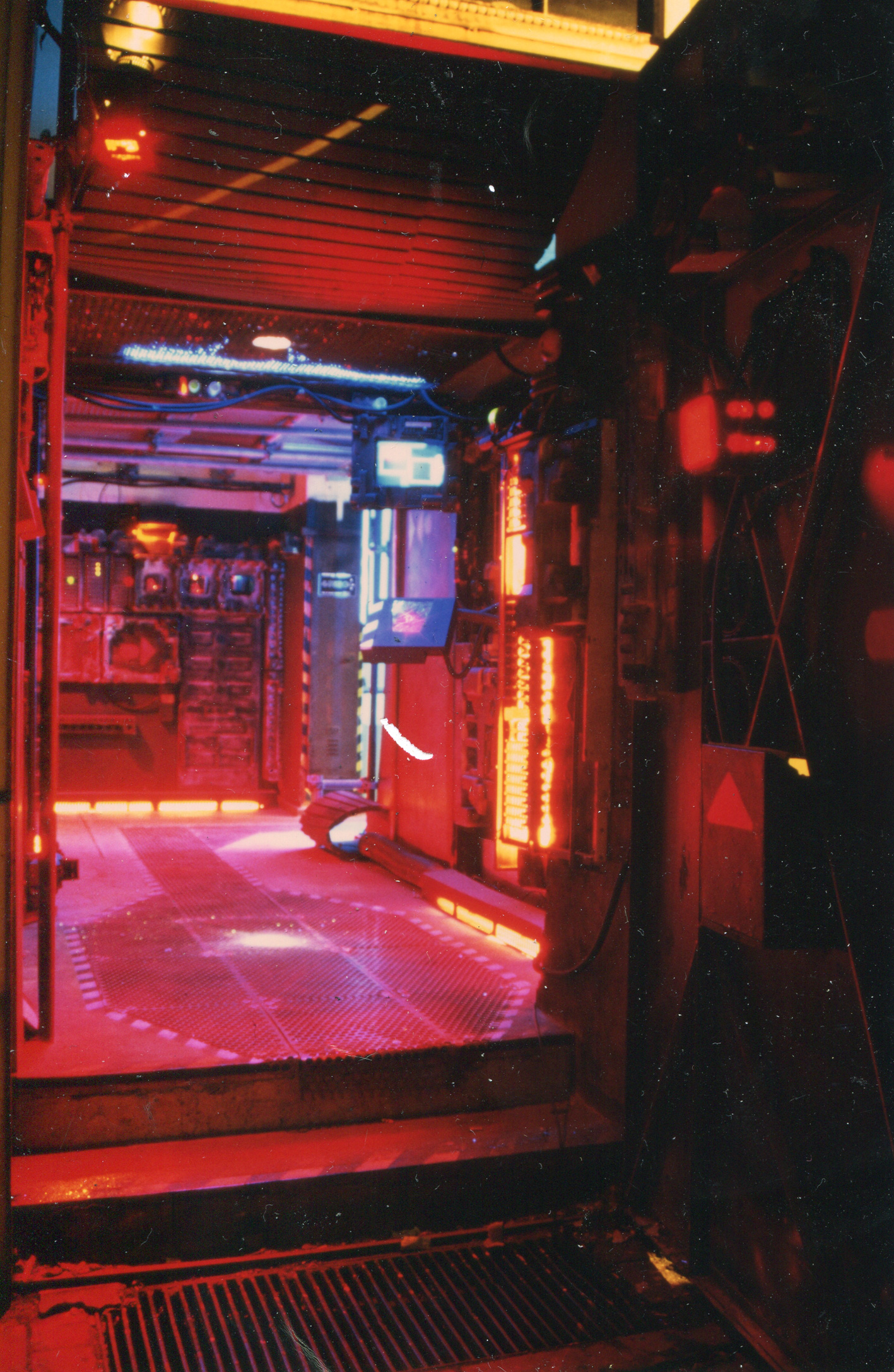 The entrance of c-base in 1998 near Oranienburger Street in the center of Berlin.